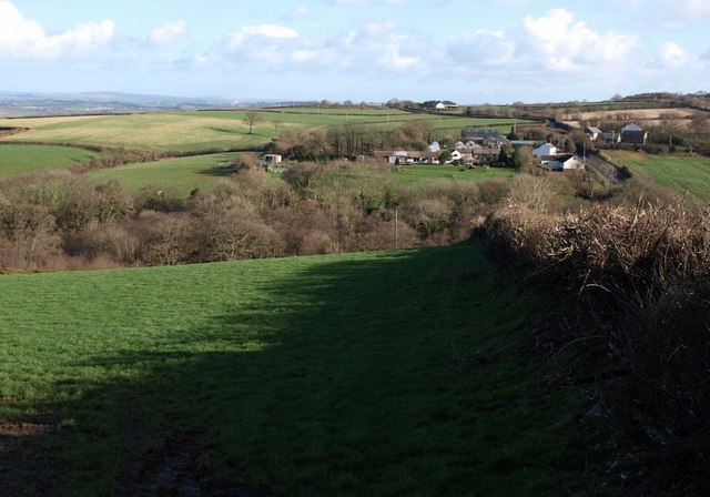 Eastacombe. This area is characterised by north-south ridges and valleys. The hamlet of Eastacombe is on one ridge, seen here from the ridge to the west, and separated by the valley seen in 671873.